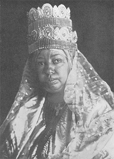 Empress Taitu